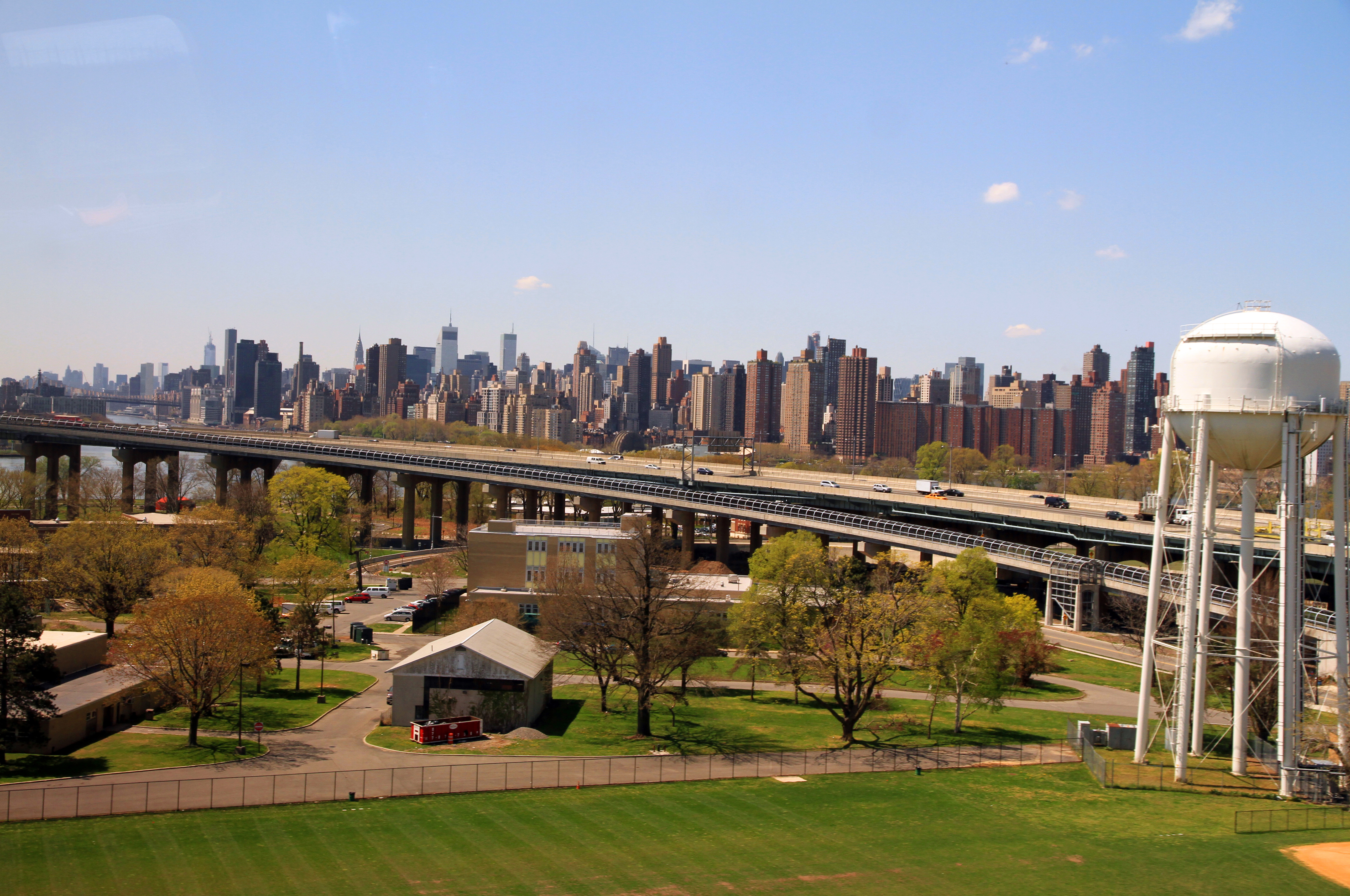 Manhattan view from Amtrak train